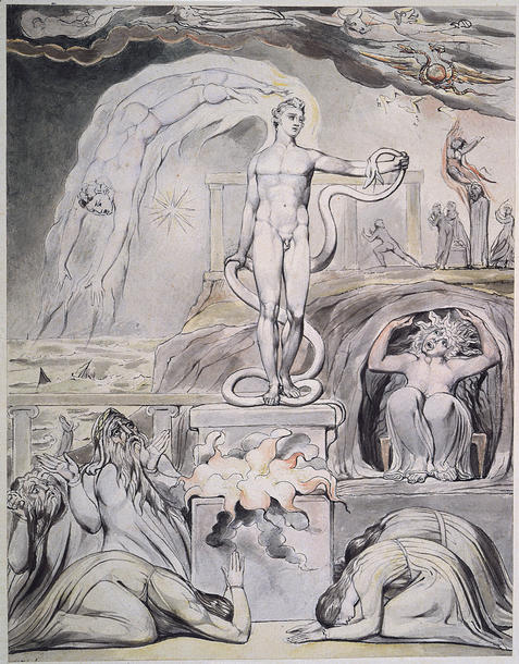 Watercolor Illustration to Milton's On the Morning of Christ's Nativity, by William Blake